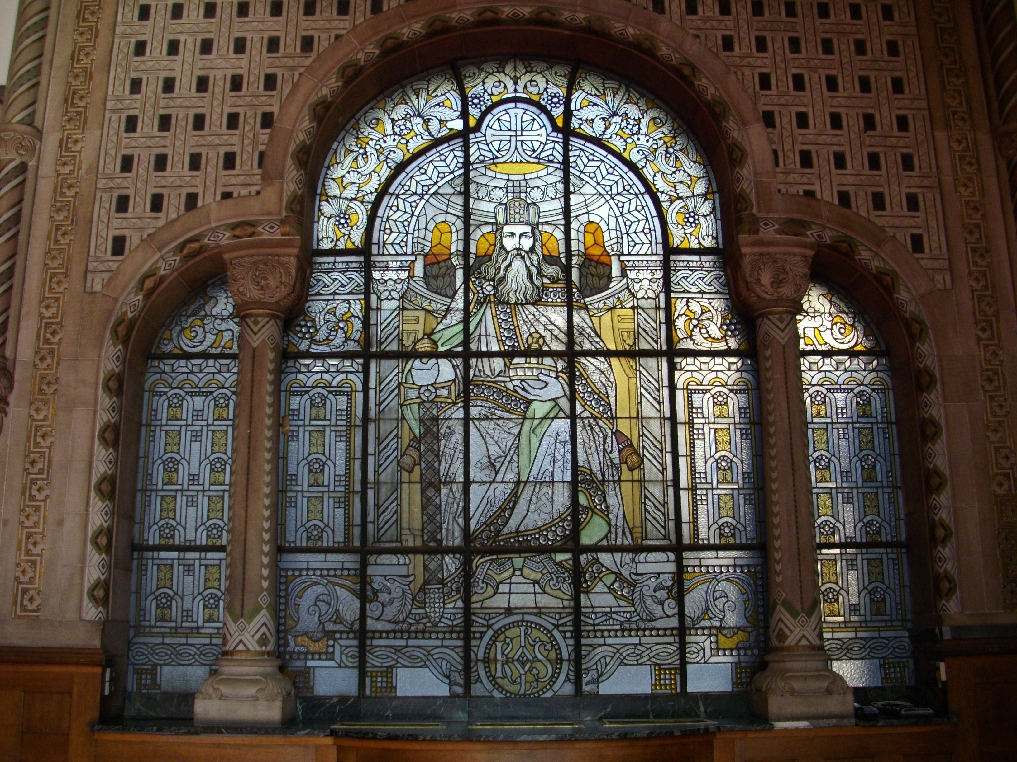 Stained glass window showing Charlemagne in the reception room in Metz station (european heritage days 2010)